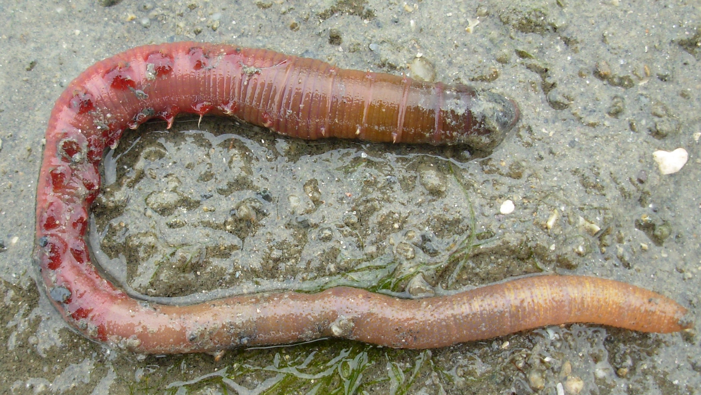 Arenicola marina. Ver sorti de sa galerie.